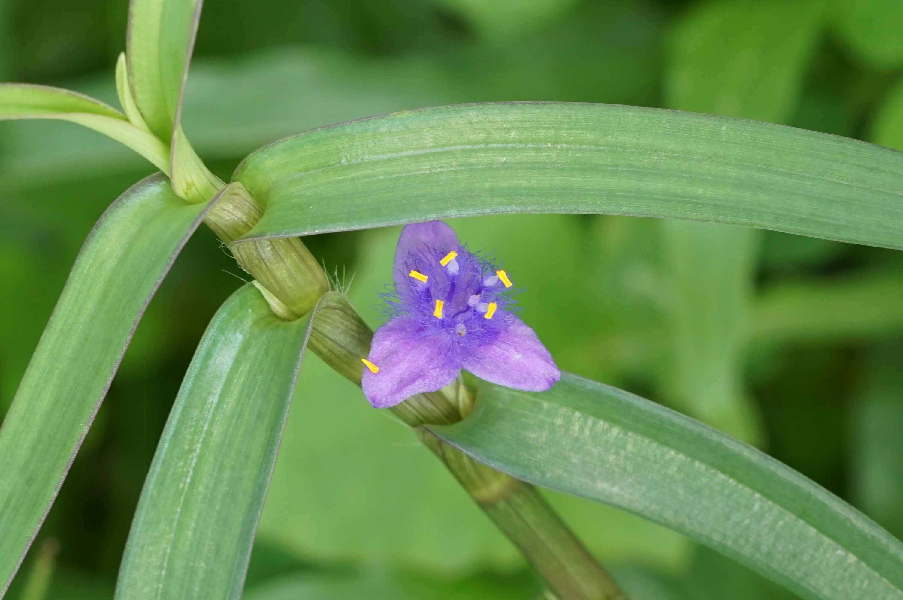 Commelinaceae